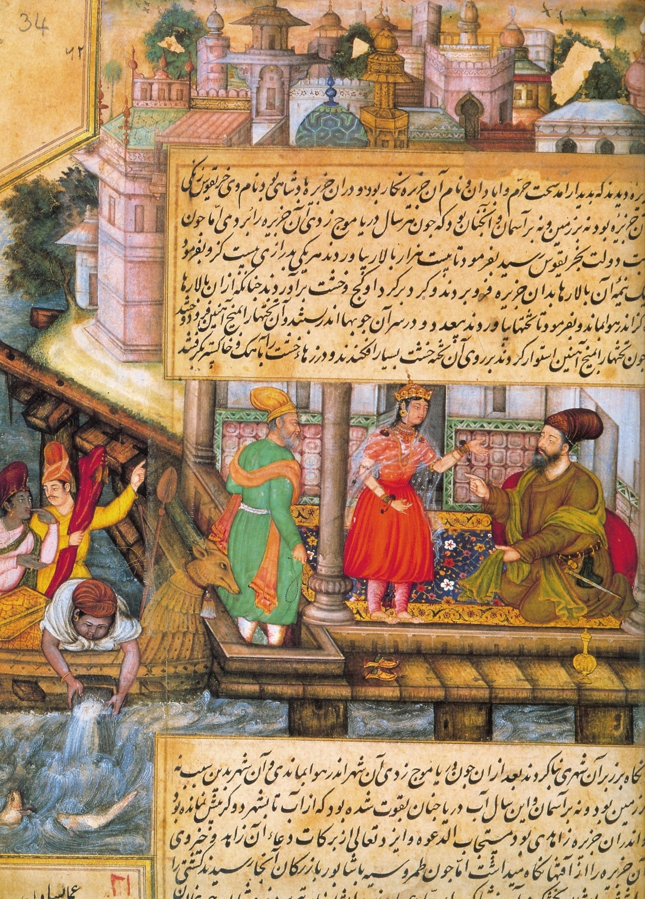 Basawan. Tamarusa and Shapur at the Island Nigar. An illustration from the Darabnama, ca.1585-1590, British Library, London